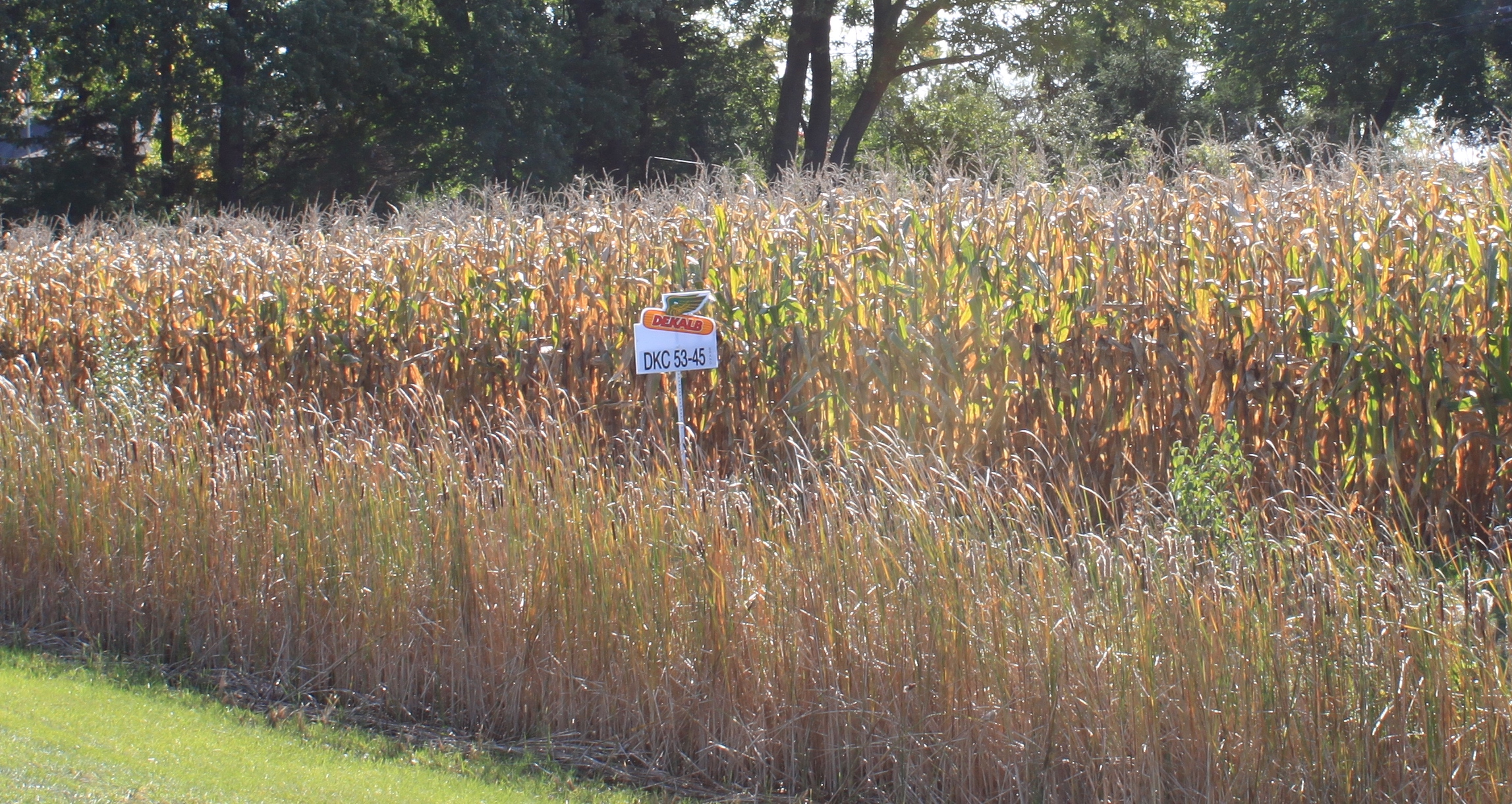 Corn field planted with DeKalb DKC 53-45 seed, South Custer Road, Monroe, Michigan.